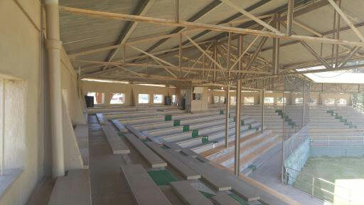 Inside the original Warren Ballpark Grandstand